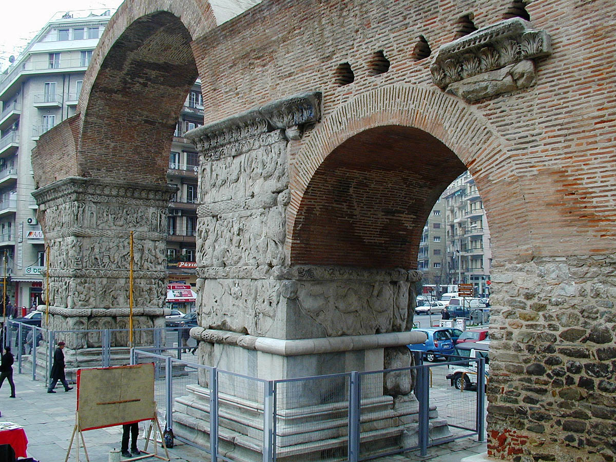 Arch of Galerius in Thessaloniki, East face viewed from North. Photography taken by Μαρσύας.